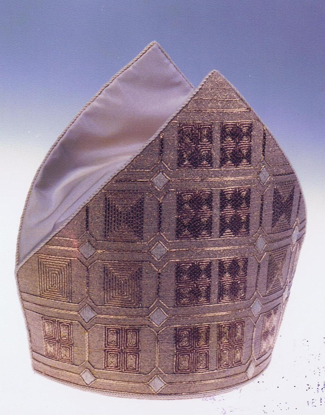 Mitre (1984) made for Karl Lehmann by Josef Plum